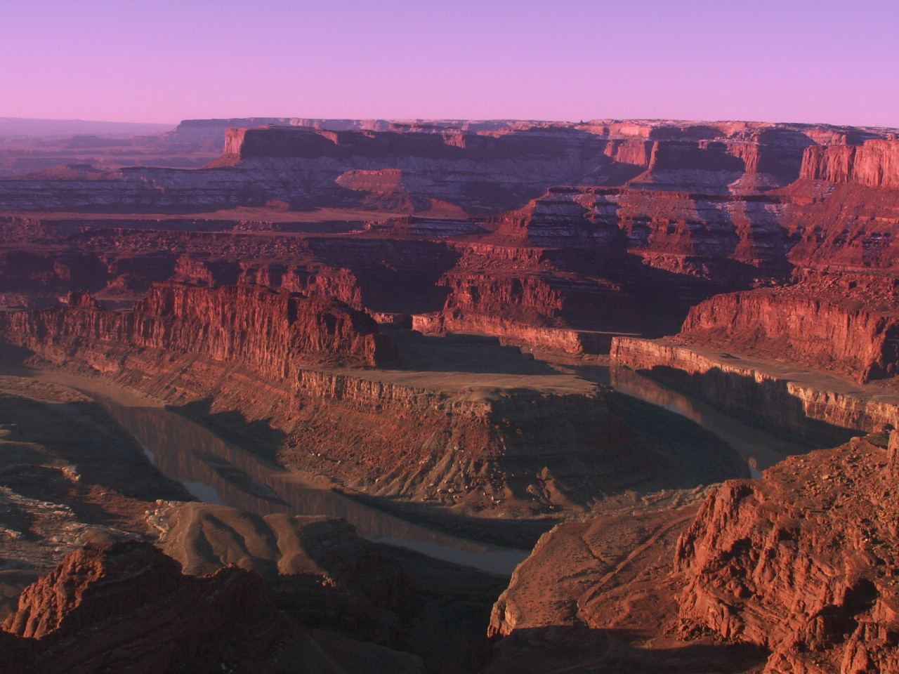 Dead Horse point State Park Utah Moab